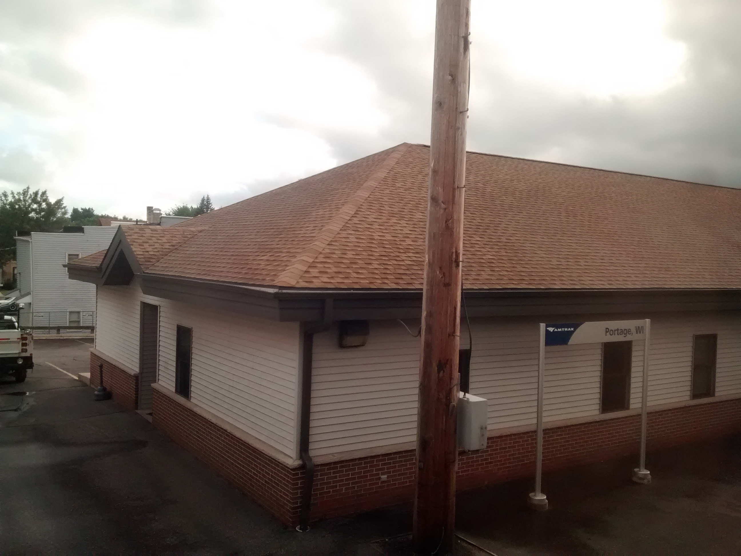 Portage (Amtrak station) in Portage, Wisconsin.